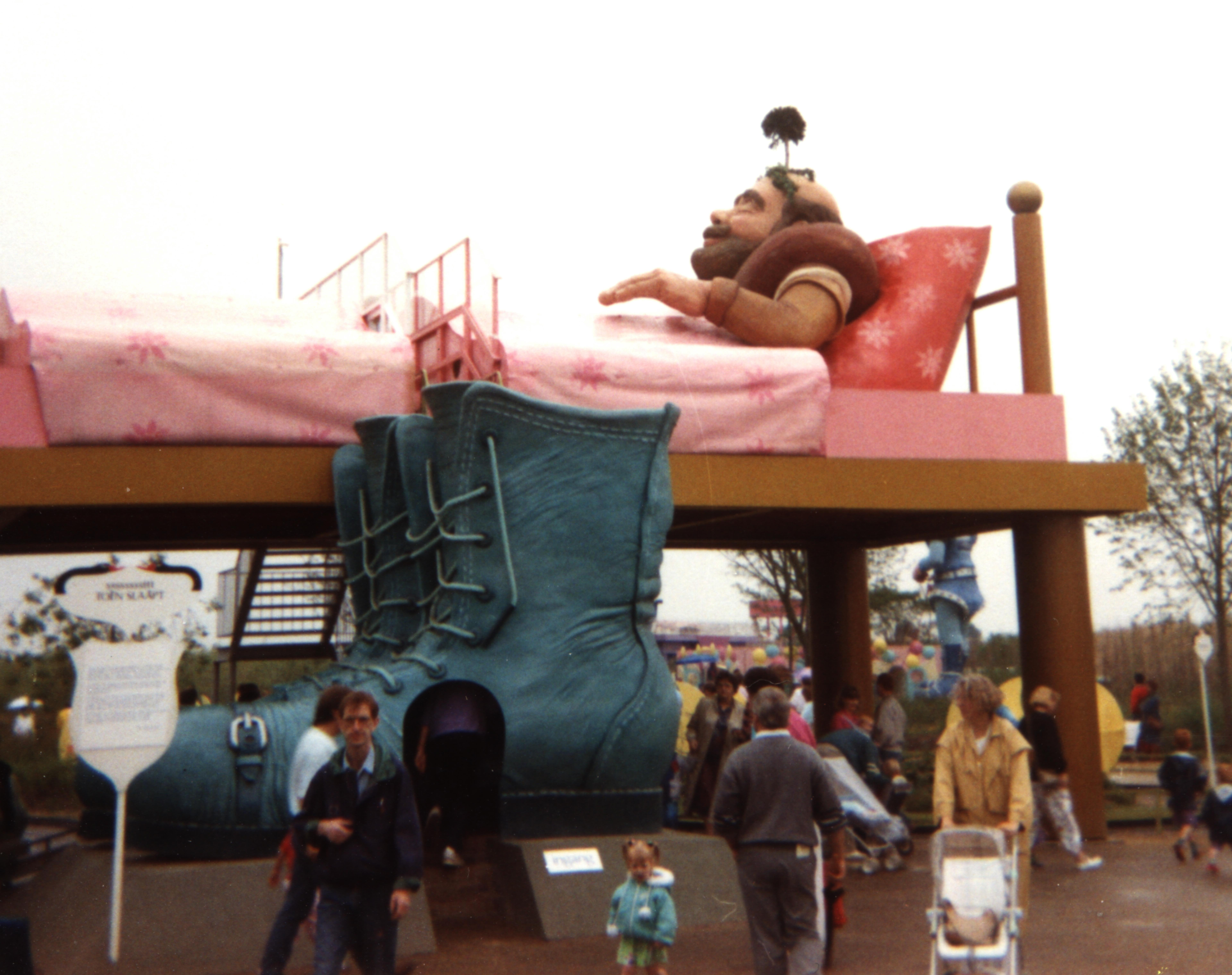 Reus Toen from Het Land Van Ooit (Drunen, The Netherlands)